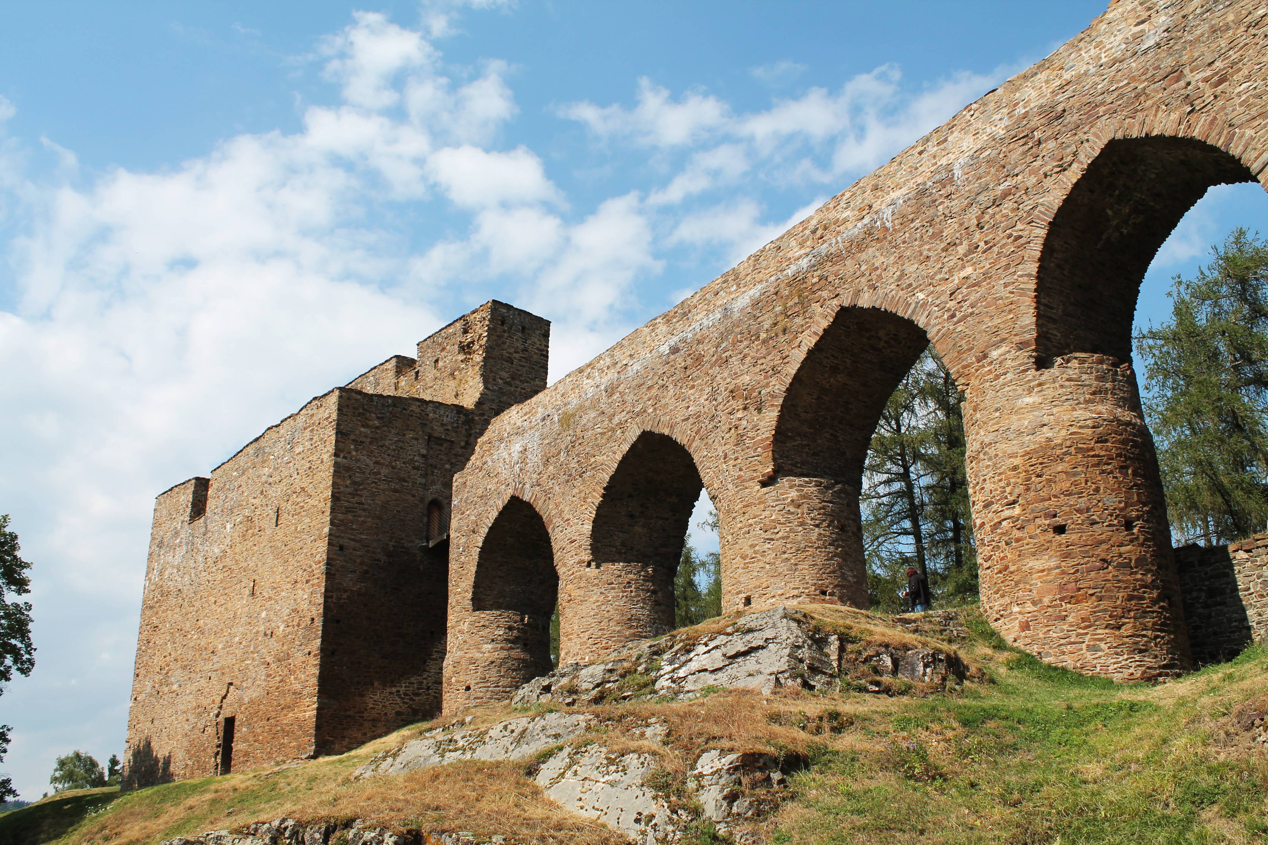 Velhartice castle, Klatovy District, Czech Republic - Google Maps - Google Earth